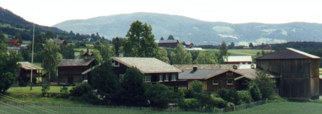 Forkalsrud in Ringebu, Norway as seen from the west